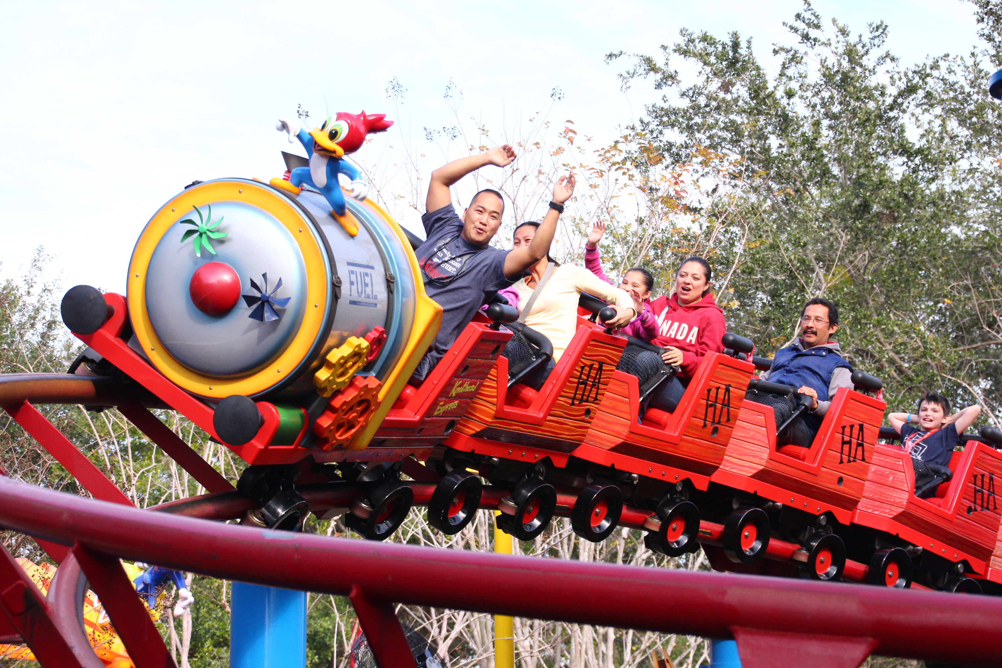 Woody Woodpecker's Nuthouse Coaster roller-coaster ride at Universal Studios Florida.